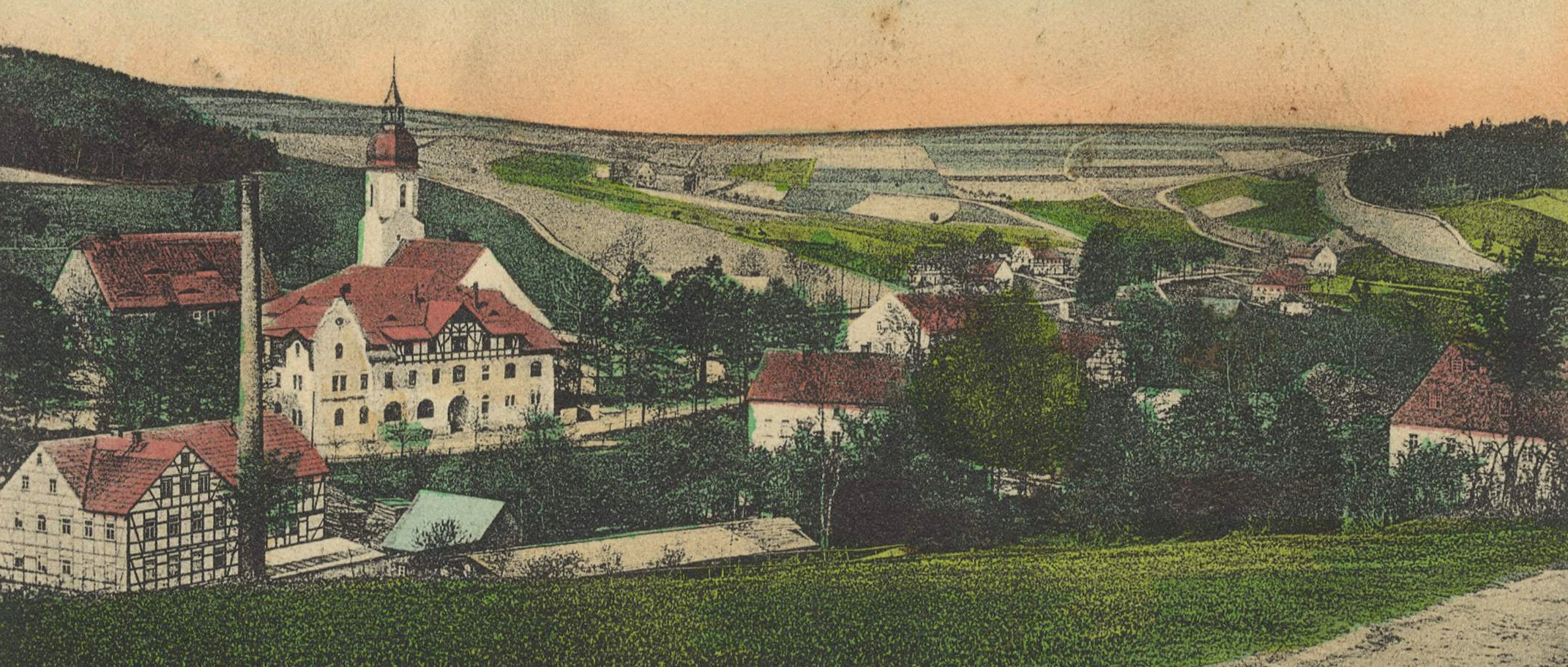 This image shows the small village Clausnitz, a Municipality subdivision of Rechenberg-Bienenmühle in Saxony.